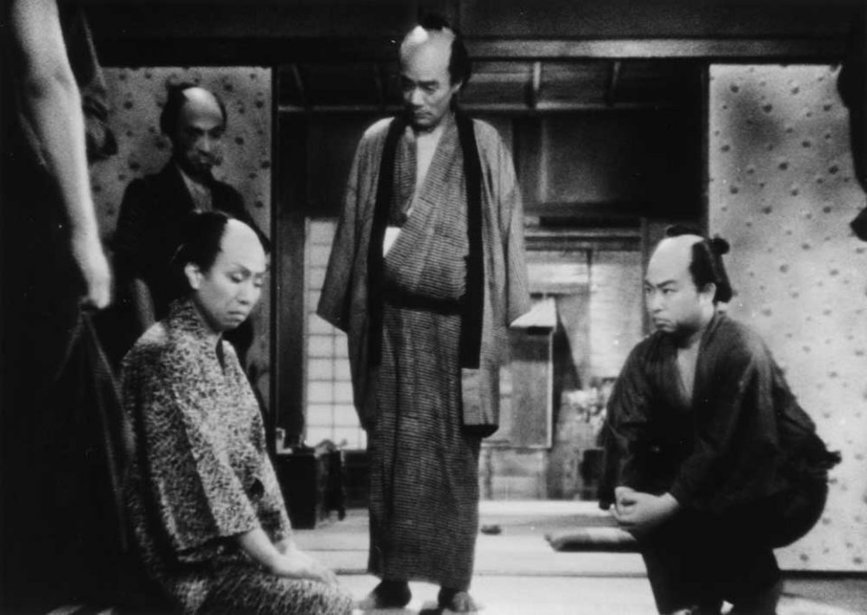 Kan'emon Nakamura (left) and Daisuke Katō (right) in Ninjō kamifūsen (1937)